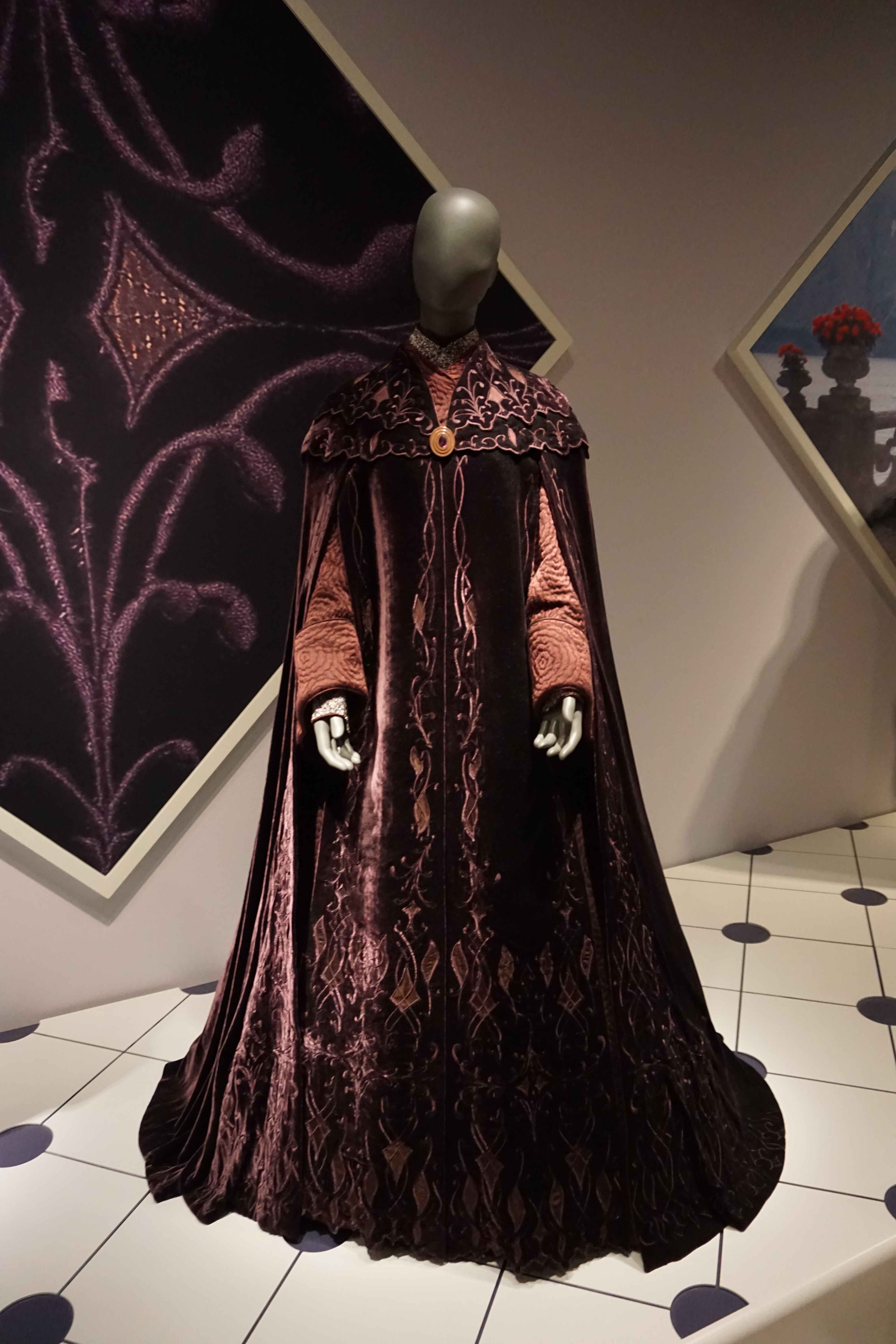 Padmé Amidala's veranda sunset gown from Star Wars: Episode III – Revenge of the Sith on display at the Star Wars and the Power of Costume traveling exhibit at the Detroit Institute of Arts in Detroit, Michigan (United States).